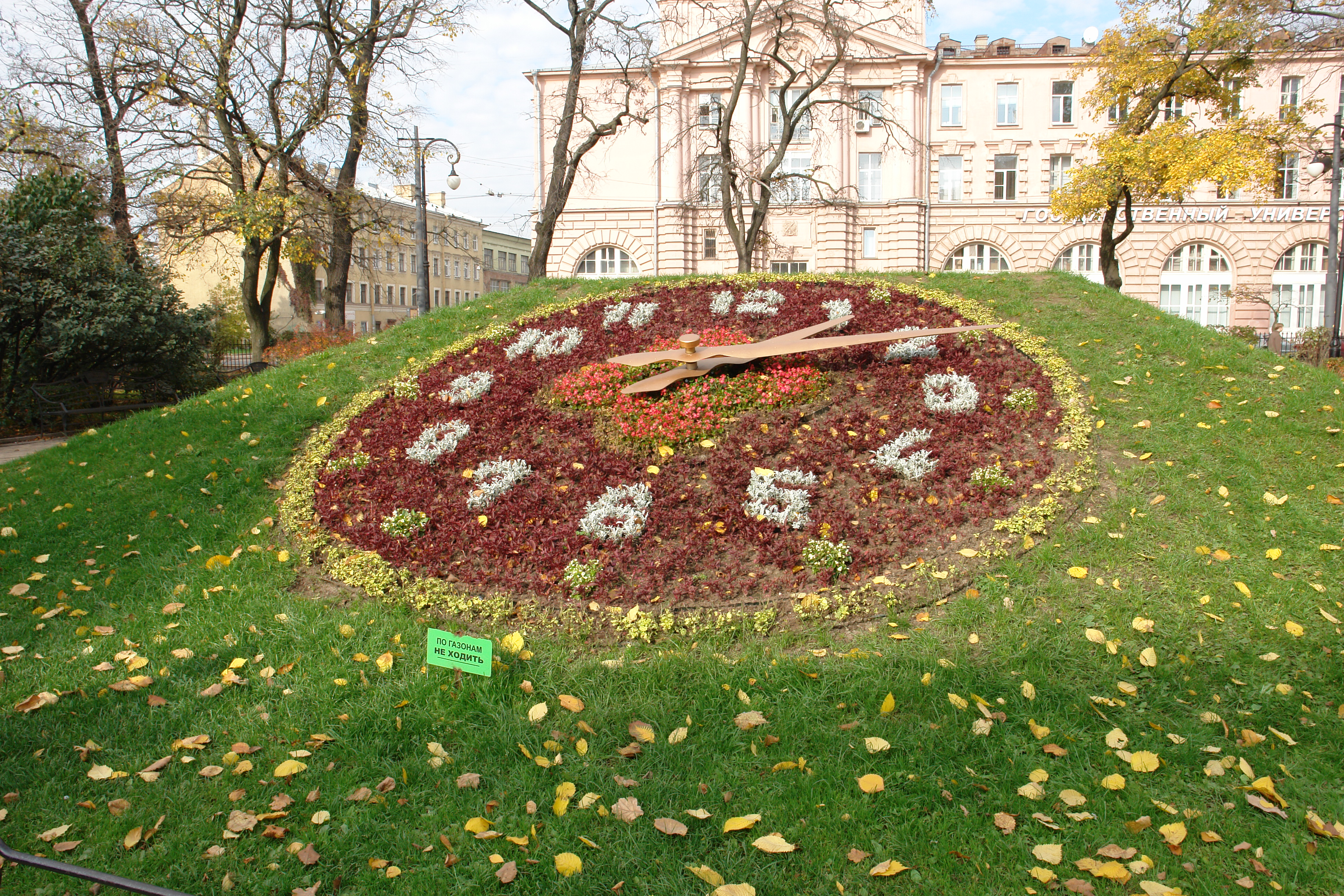 The flower clock in St. Petersburg in front of the Saint Petersburg State University of Information Technologies, Mechanics and Optics building. Donated by Switzerland in 2003 (300 years of Saint Petersburg).